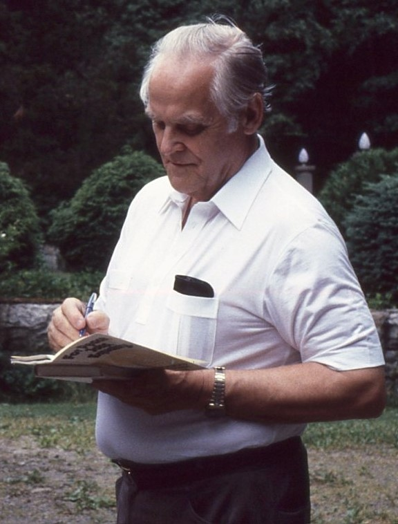 Cropped version of photo uploaded on Mar 28, 2010.